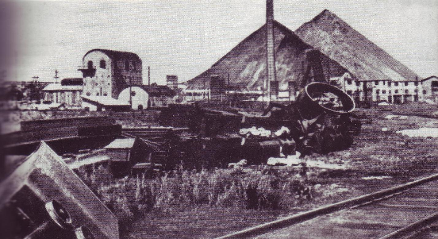 Destruction of the industrial environment in the Donbass Region by retreating German troops in late summer 1943.